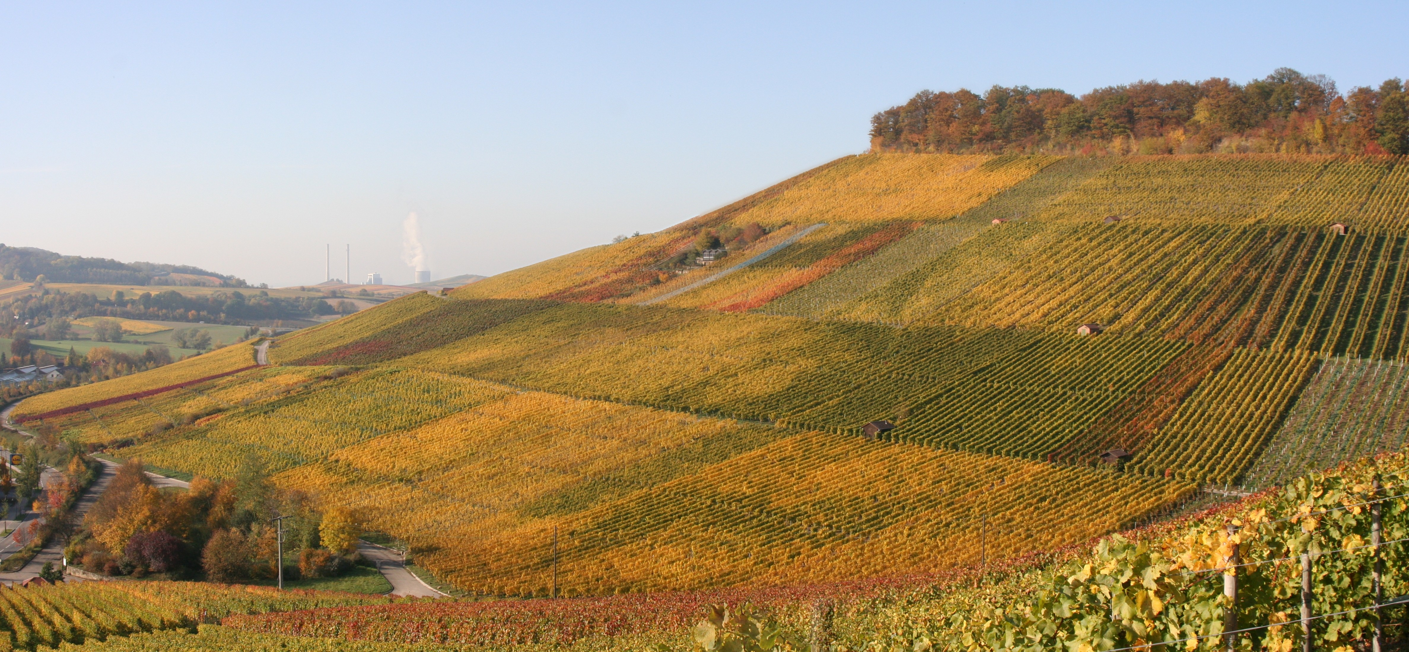 Autumnal vineyards in Weinsberg, Germany